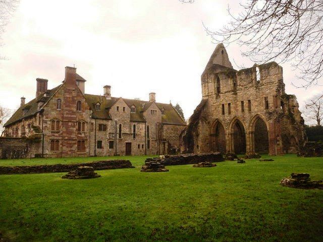 Much Wenlock: the priory from the northeast Looking across the eastern end of 1627207. On the left, we see the parts of the building that were converted to residential use at the dissolution, and hence survive intact while the remainder was plundered for its stone and thus became a ruin.